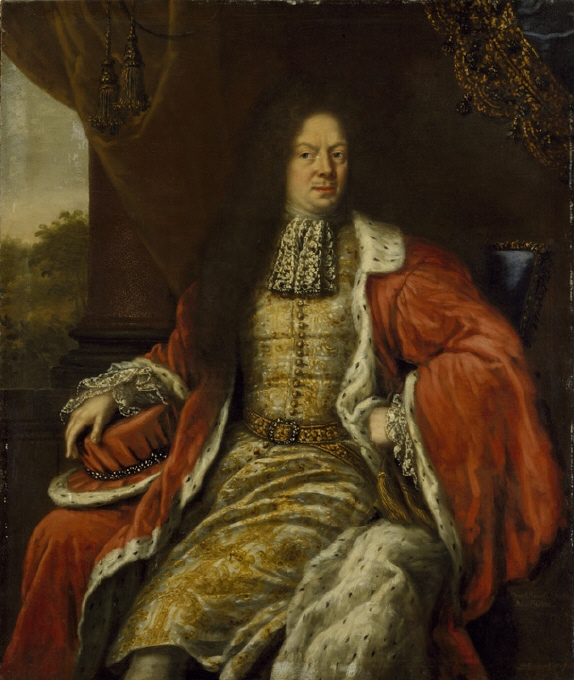 The swedish count and field marshal Nils Bielke (1644-1716)